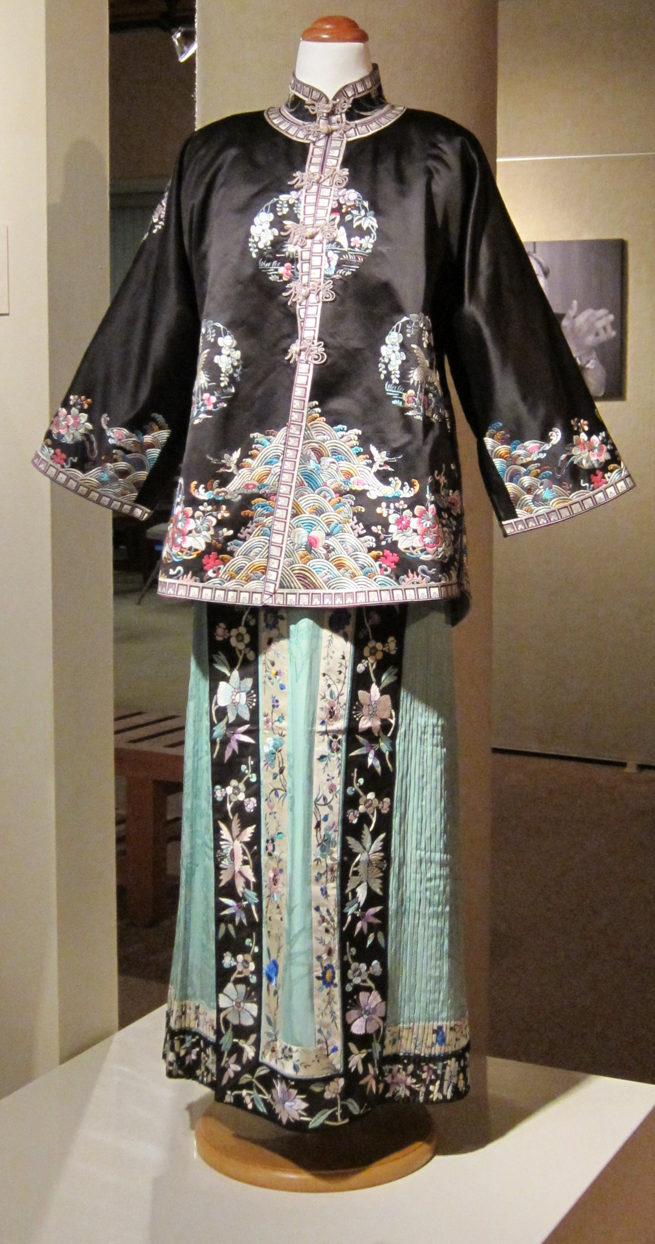 Chinese embroidered silk lady's jacket and pleated skirt, c. 1900, East-West Center, Honolulu